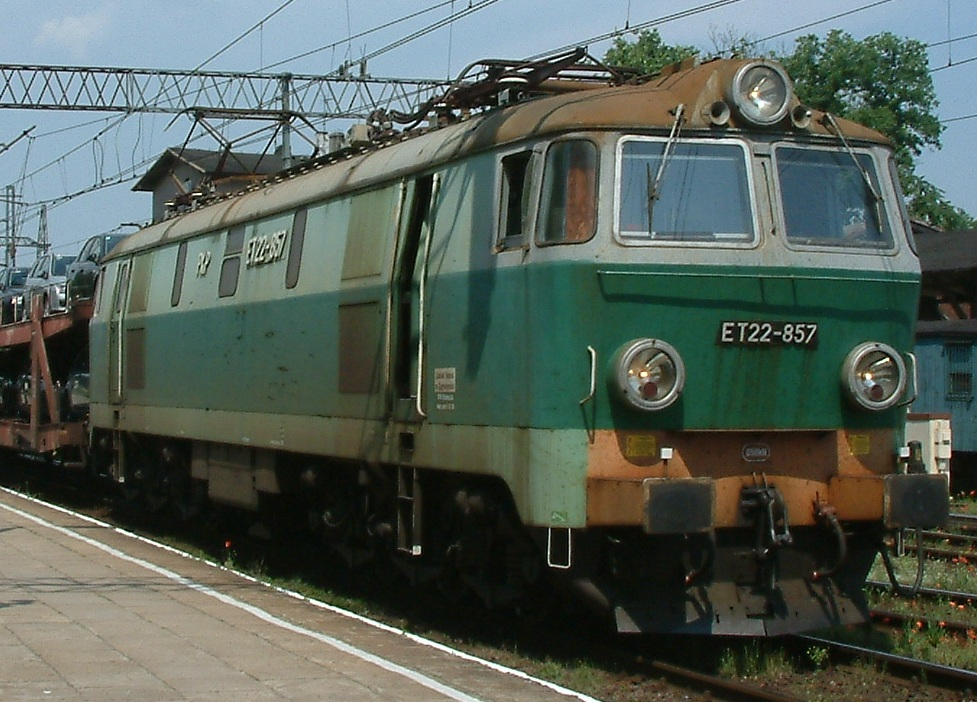 Locomotive ET22-857 on Poznań-Starołęka Station